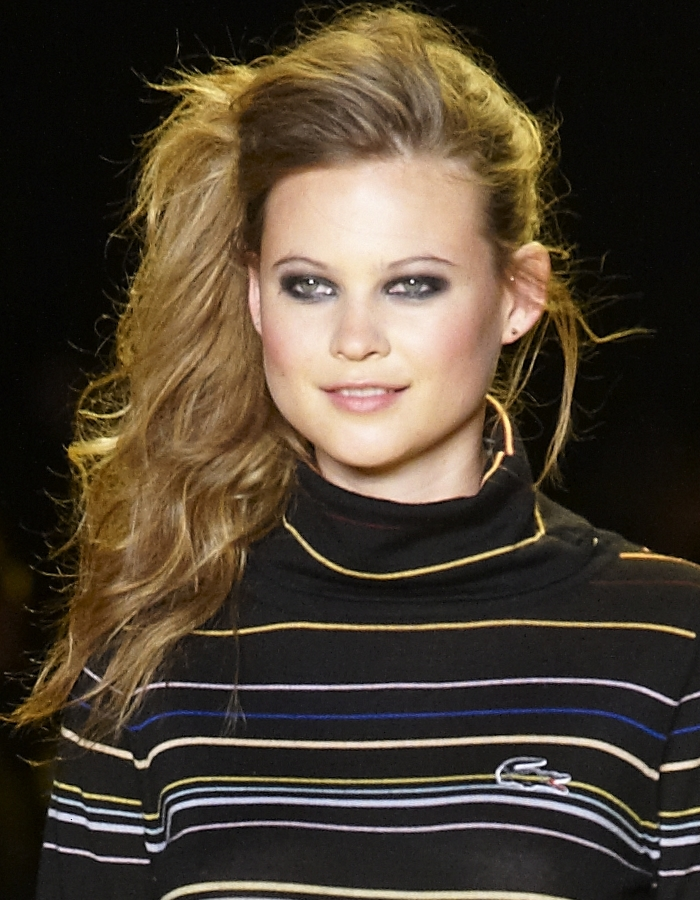 A model walks the runway at the Lacoste Fall/Winter 2010 show at New York Fashion Week, February 2010.